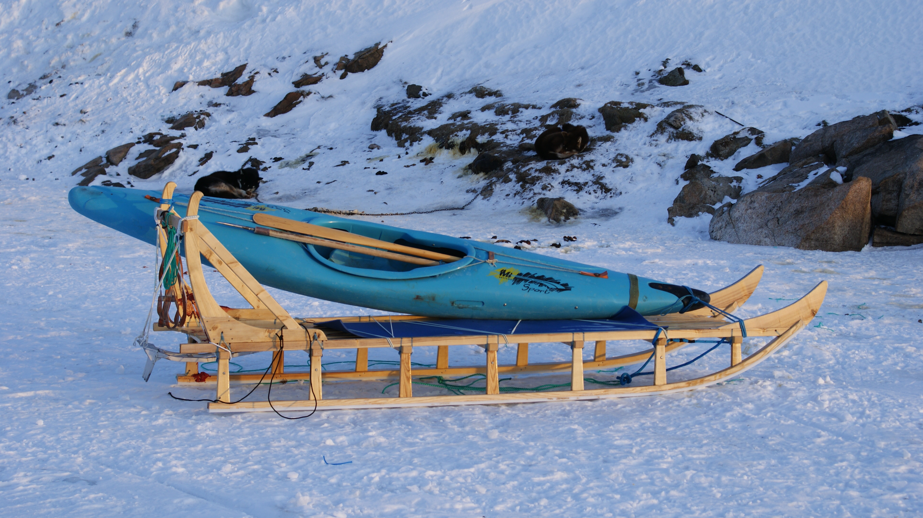 Kulusuk, Greenland. The old and the new: kayak ontop of a dogsled.